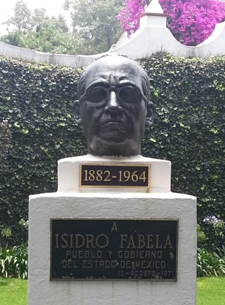 Picture of a sculpture commemorating Isidro Fabela. Bust dated 12-Agosto-1971. Pueblo y Gobierno del Estado de Mexico. Isidro Fabela (1882-1964).